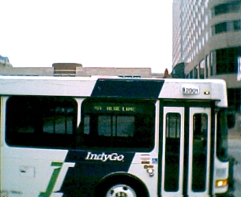 A picture of an IndyGo bus. Self-made.